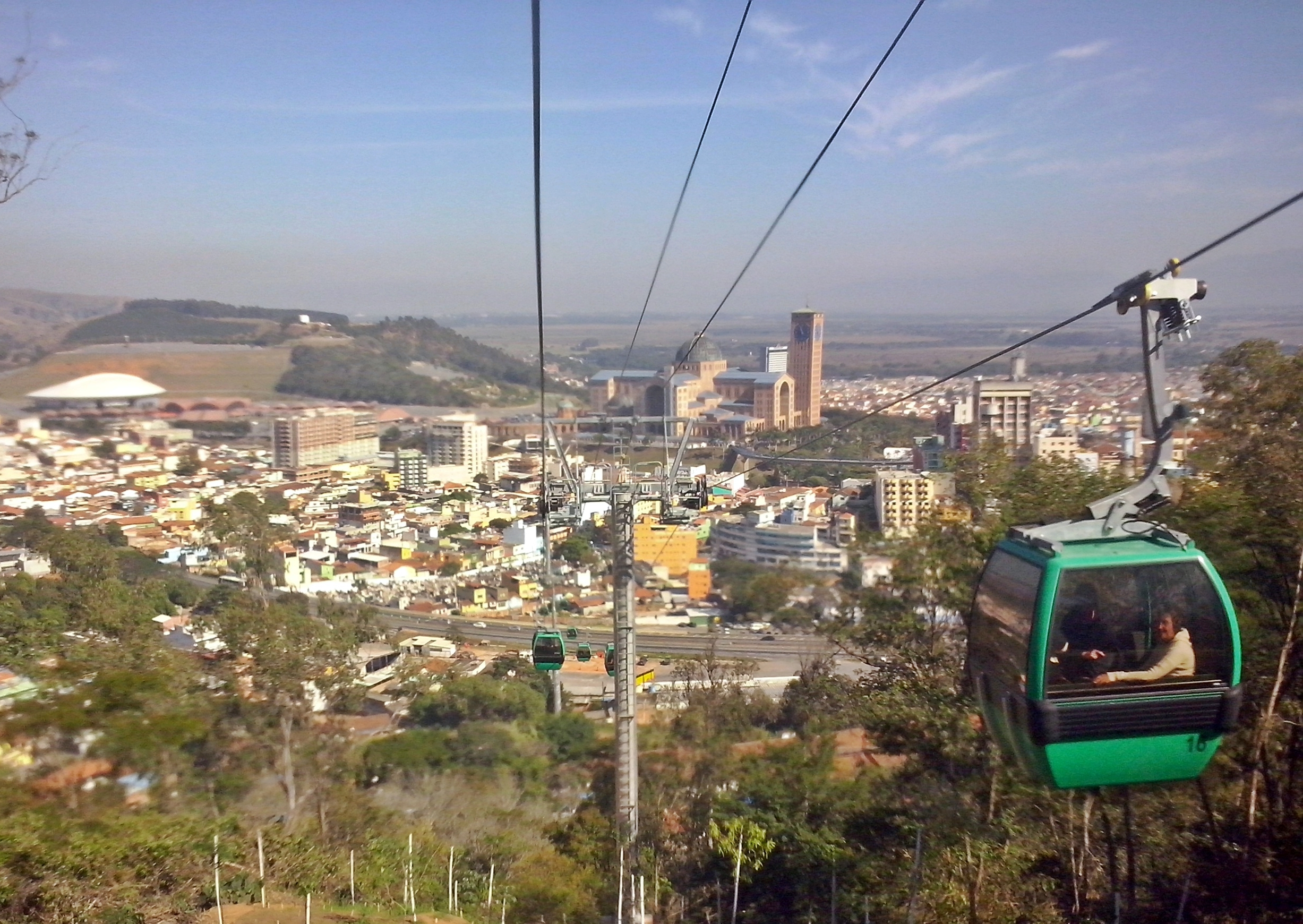 Cableway of the Basilica of the National Shrine of Our Lady of Aparecida, in Aparecida, São Paulo, Brazil.